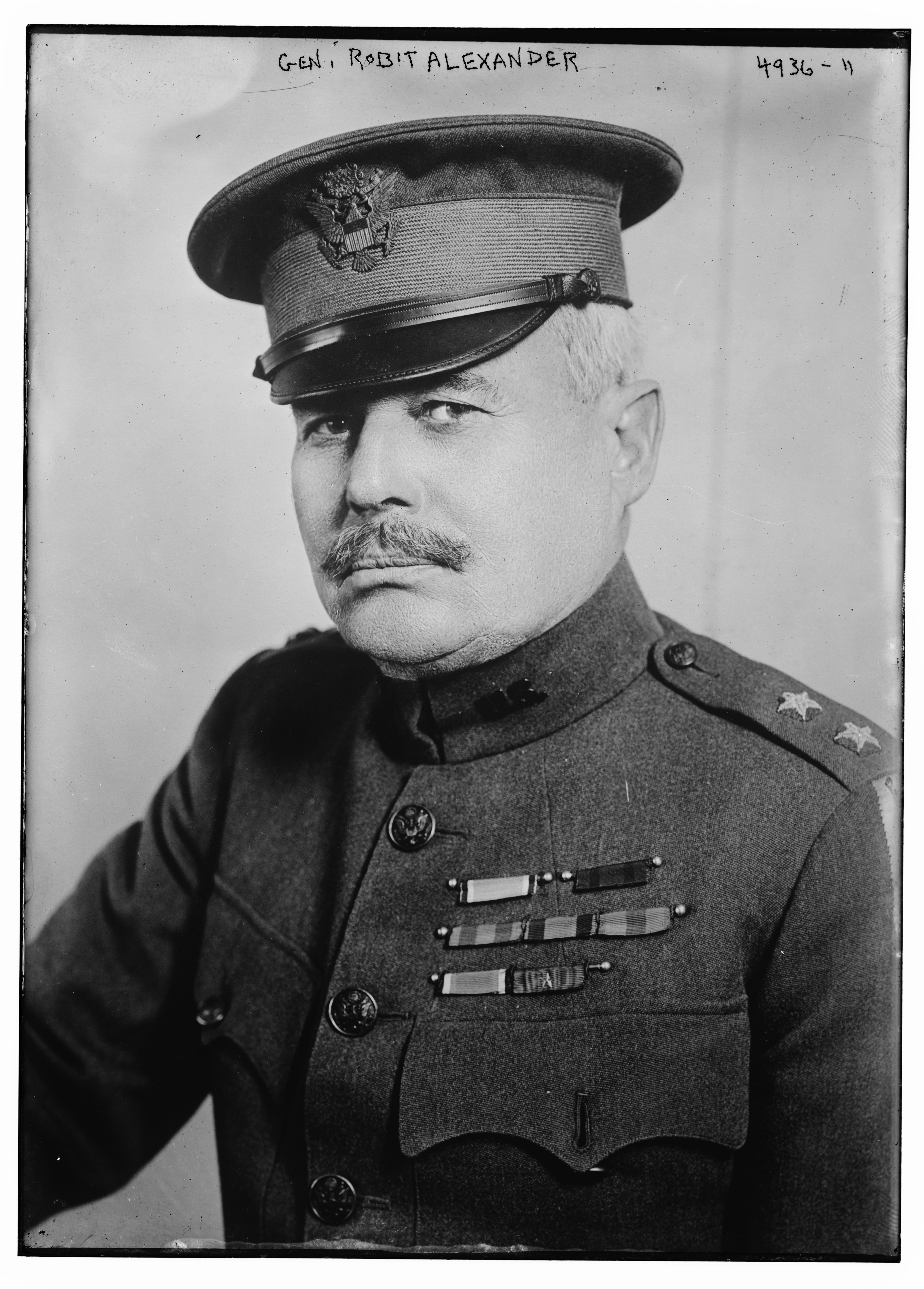 Major General Robert Alexander in 1919